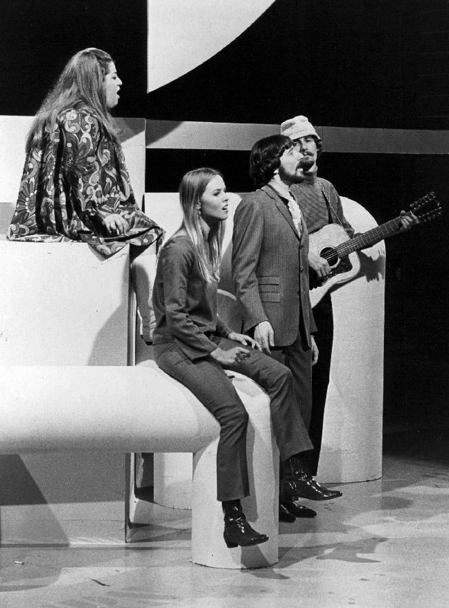 Photo of the group The Mamas & the Papas from a 1967 ABC Television program, The Songmakers". From left-Cass Elliot (at back), Michelle Phillips, Denny Doherty and John Phillips.